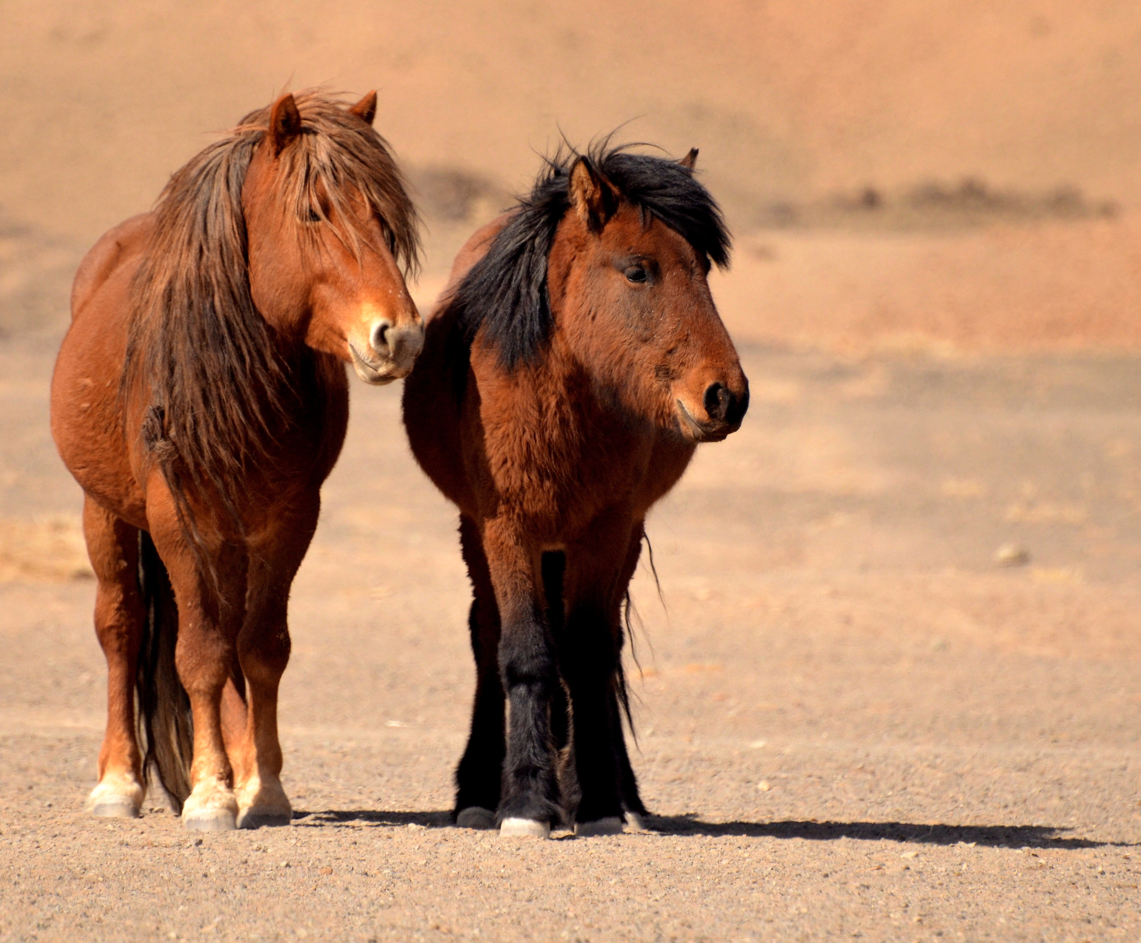 Two horses came to a water hole in the Gobi desert